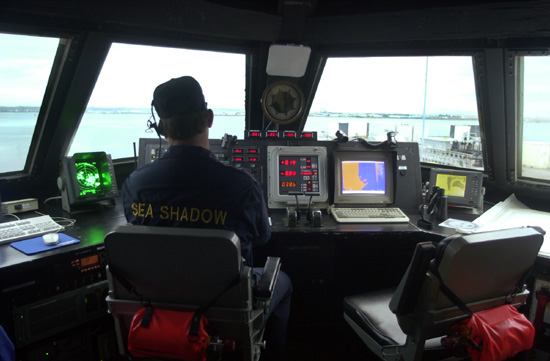 Sea Shadow (IX-529) Wheelhouse (United States Navy). Darrell Griffin, the Lockheed Martin contract manger of Sea Shadow operations for Naval Sea Systems Command, watches a submarine pull into San Diego Bay.